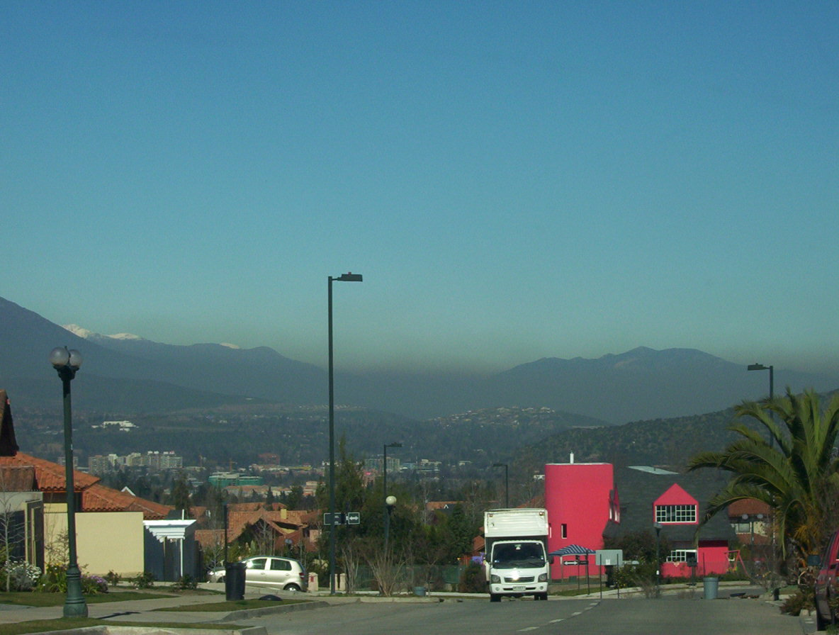 La Dehesa valley from upside